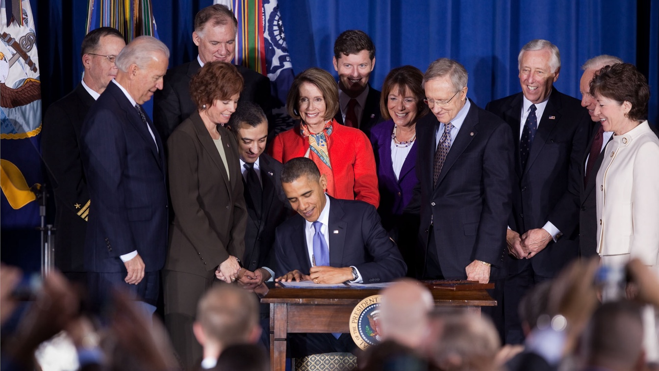 President Barack Obama signs the Don't Ask, Don't Tell Repeal Act of 2010, Wednesday, Dec. 22, 2010, at the Interior Department in Washington. (Official White House Photo by Chuck Kennedy)